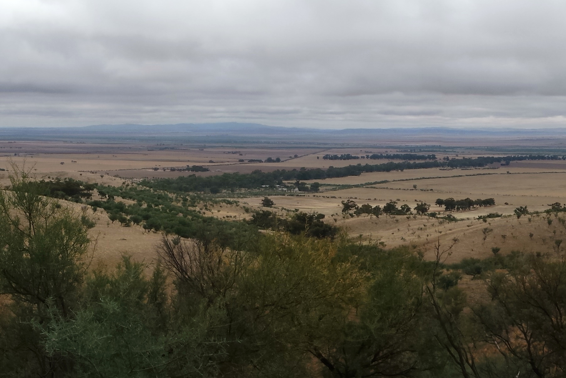 Willochra Plain from Spring Creek Mine Road, Wilmington, facing north Based wholly on original, created by User:Briggsy66, 2016.